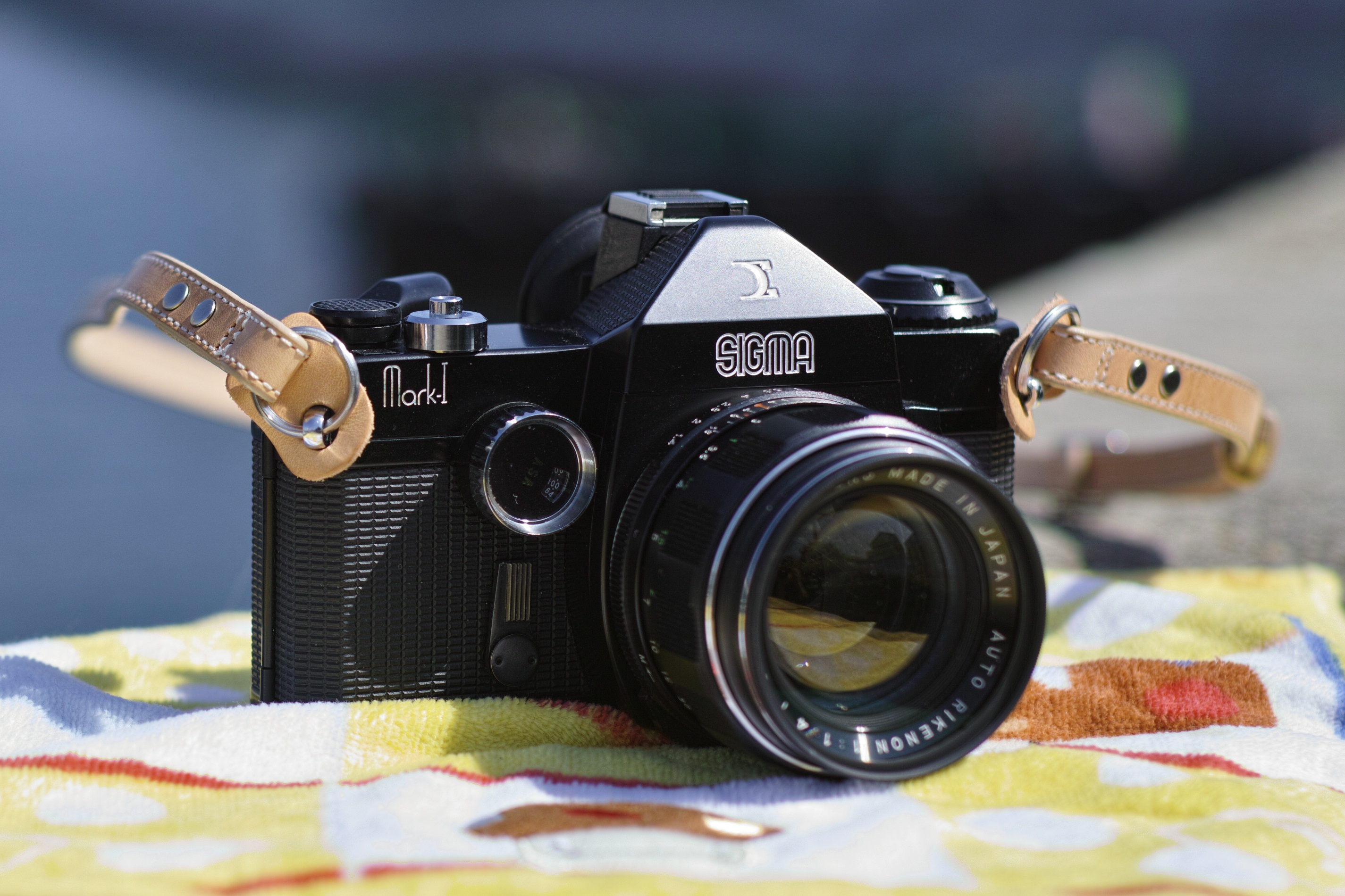 Sigma Mark-I on a seaside.